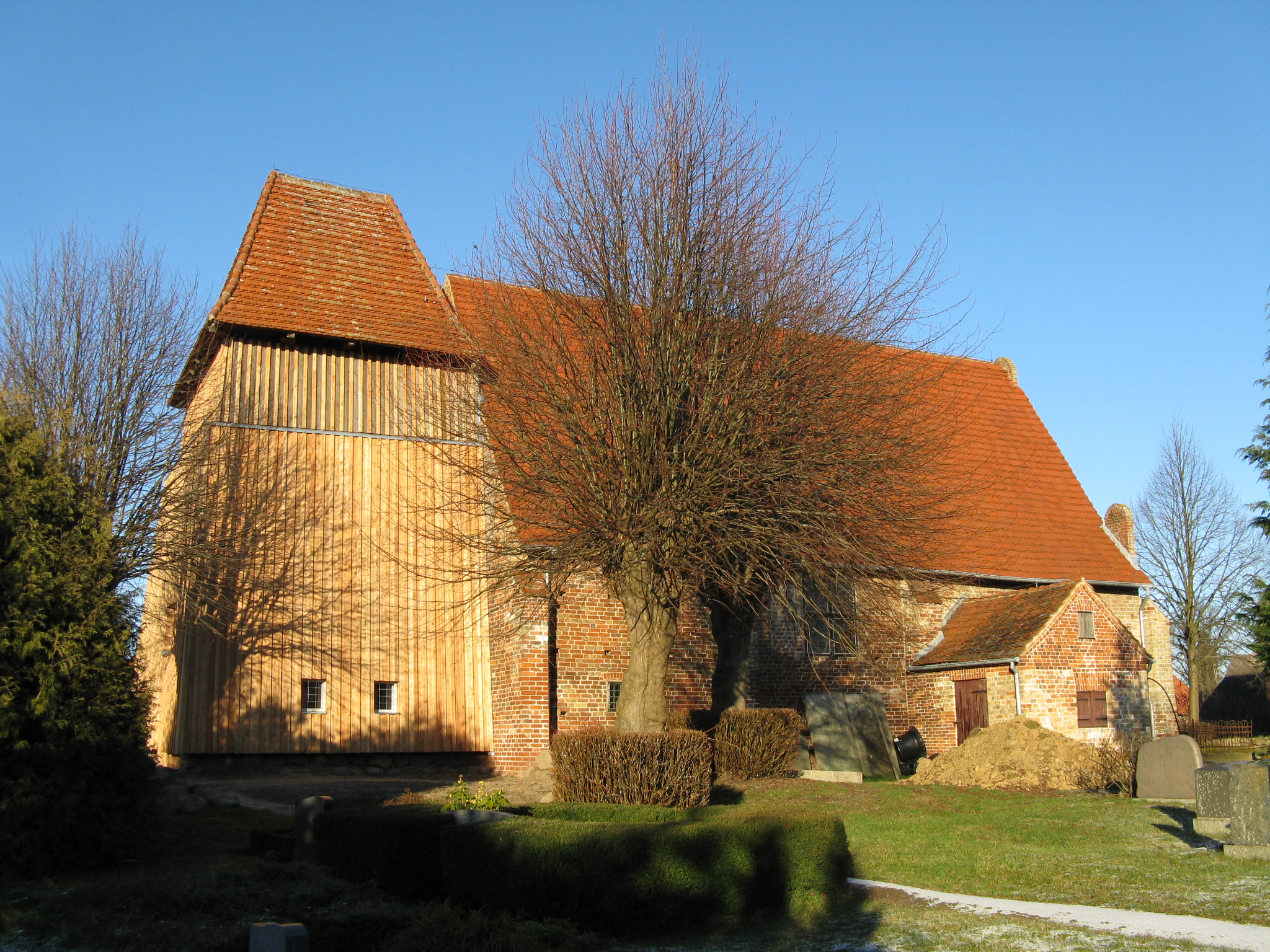 Church in Demern, Mecklenburg-Vorpommern, Germany